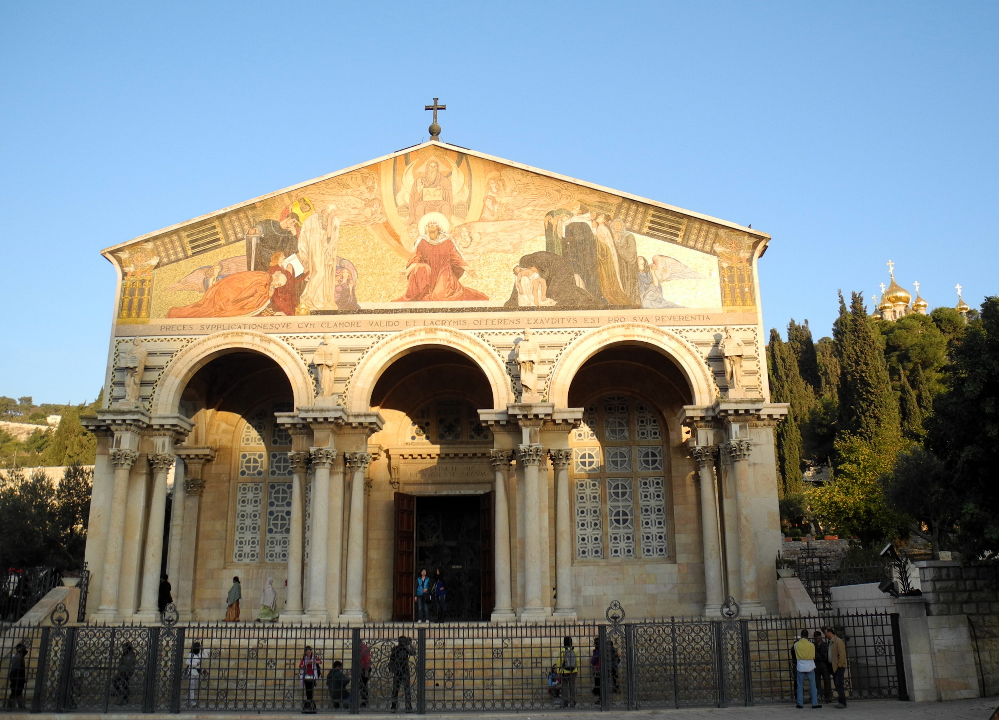 Church of All Nations at Gethsemane, Jerusalem